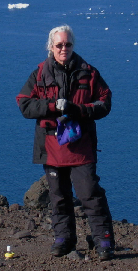 Terry Wilson at TAMDEF GPS site, Franklin Island, Antarctica